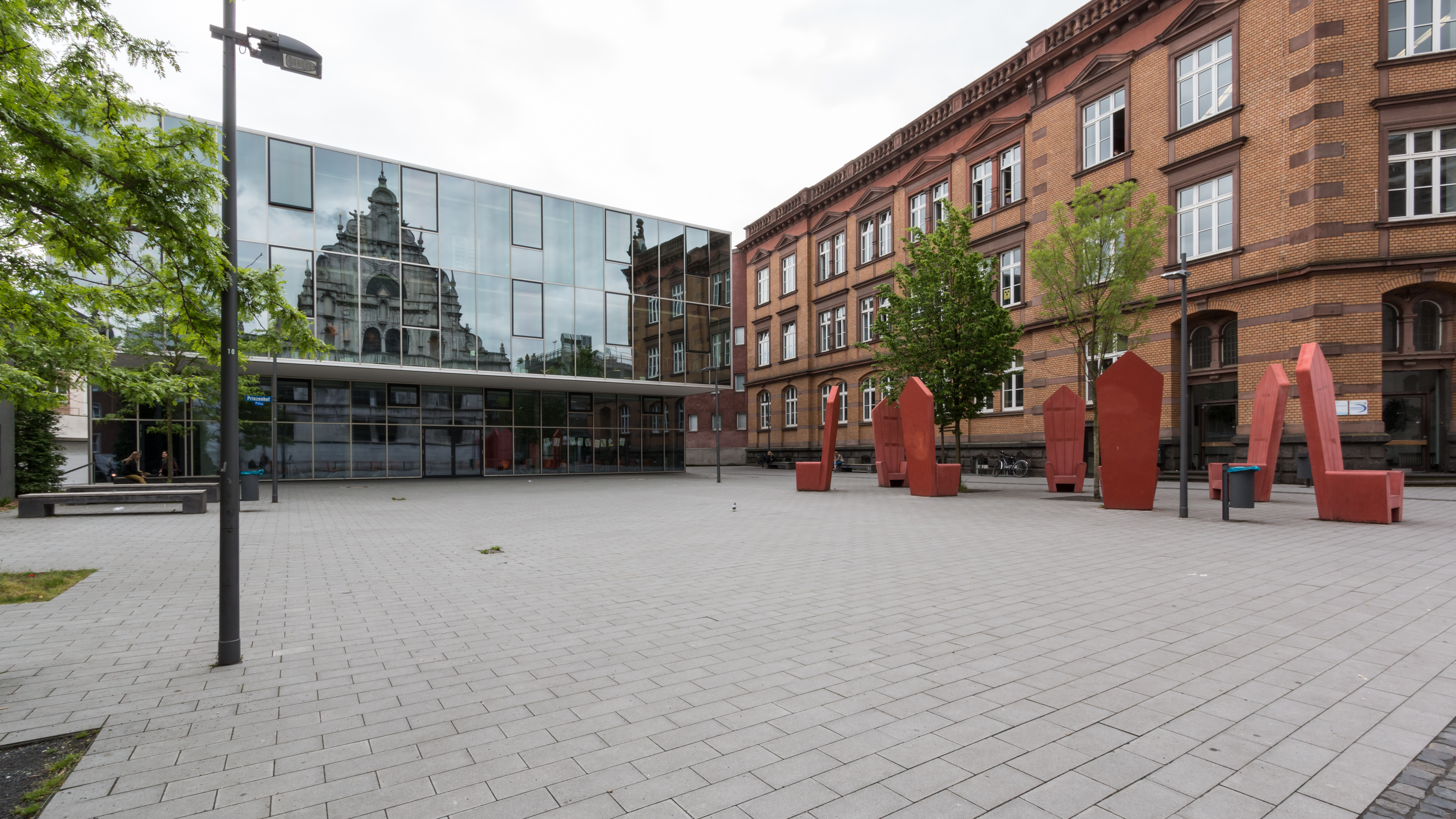 Prinzenhof with St. Leonhard Highschool (and St. Michael's Church as a mirror image), Aachen, North Rhine-Westphalia, Germany Sculpture TitleSesselArtistUnknown artistDateUnknown dateUnknown date